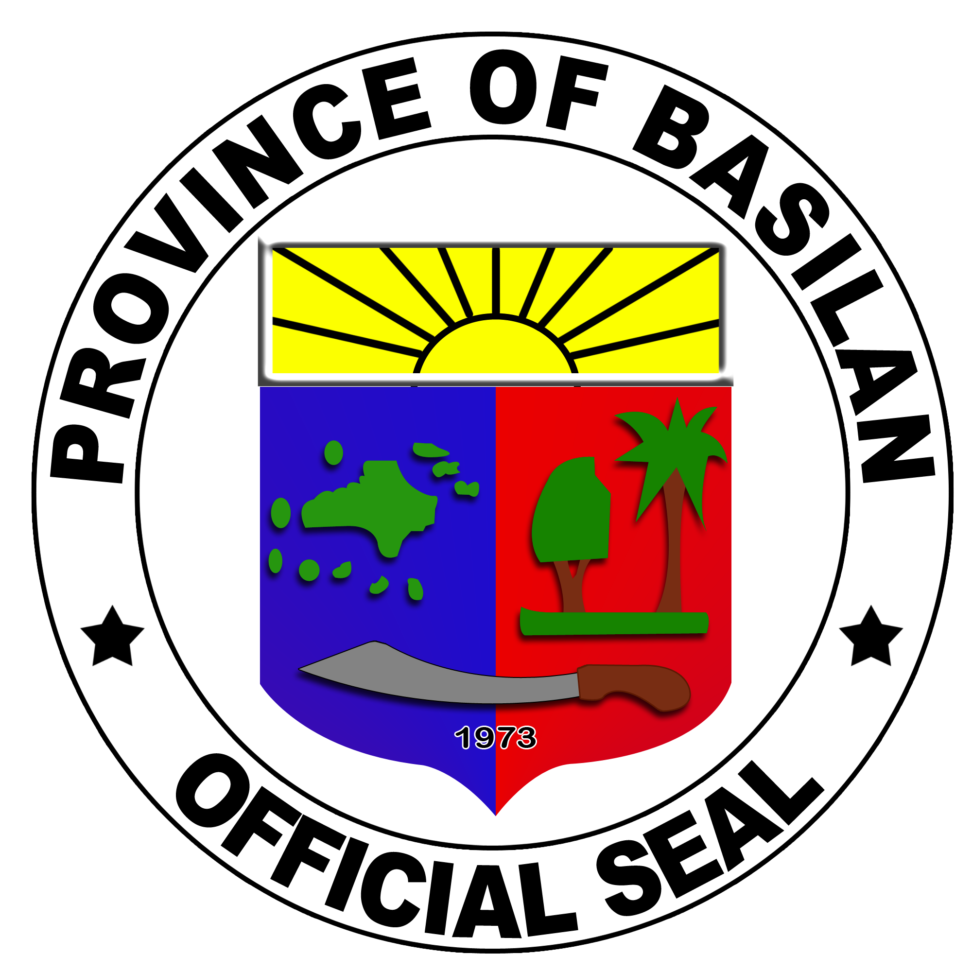 Official seal of Basilan Province